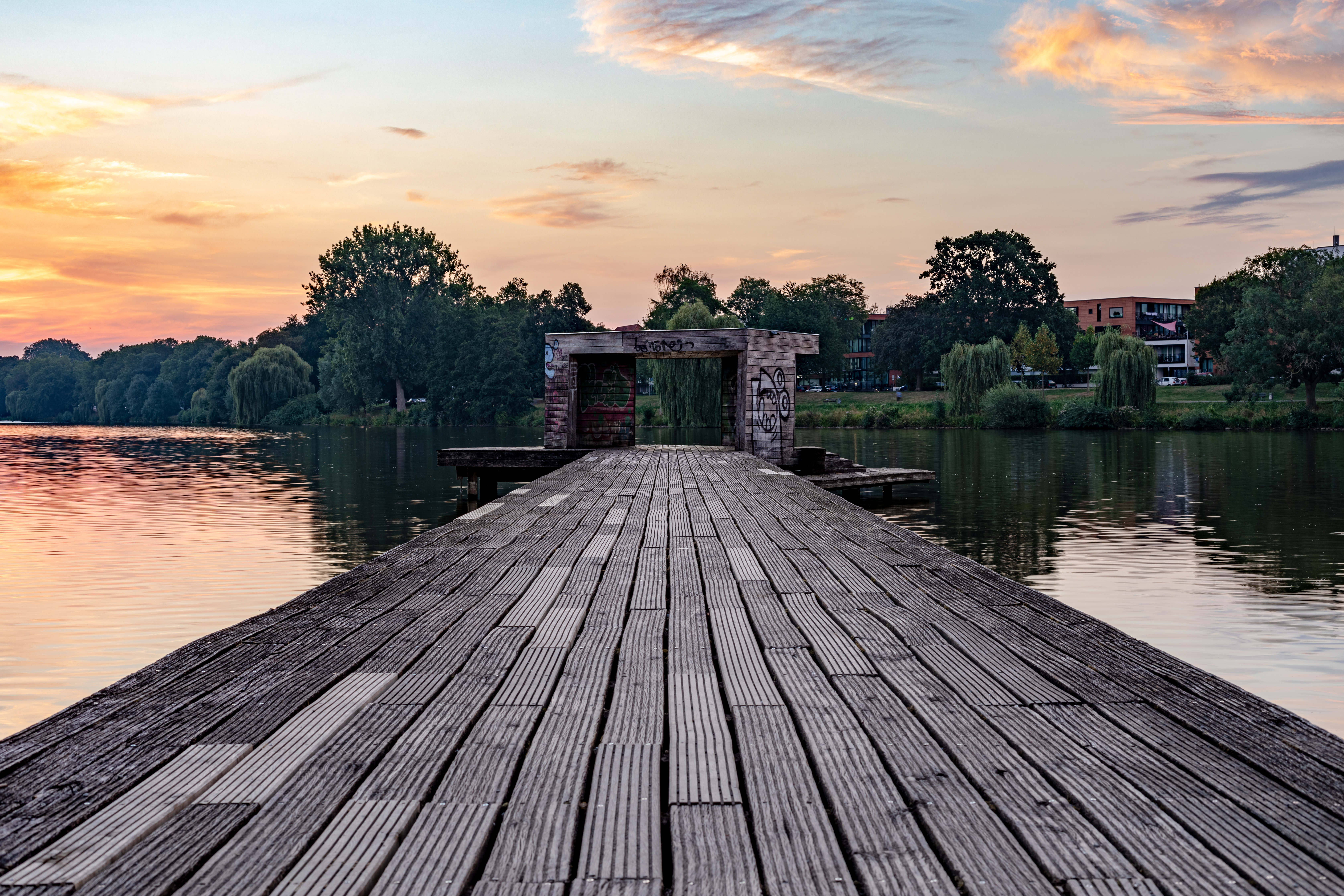 Sculpture “Pier” (Jorge Pardo, 1997) at Aasee, Münster, North Rhine-Westphalia, Germany Sculpture TitlePierArtistJorge PardoDate1997